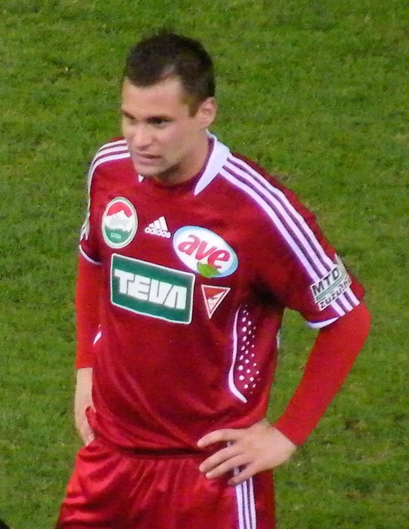 Péter Czvitkovics Hungarian football player